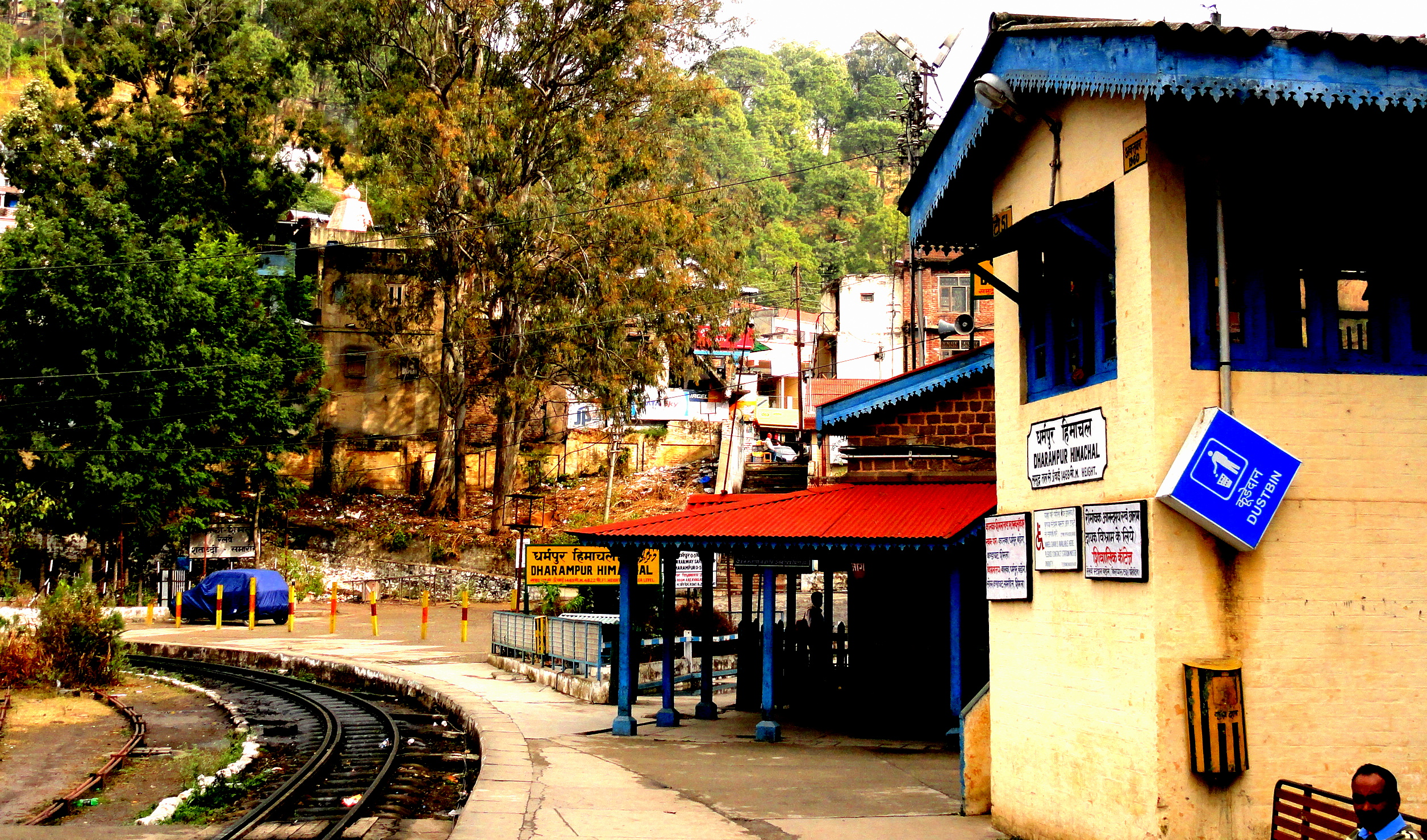 Bharmpur : 15 km from Kasauli on the National highway No.22. and also connected by Kalka Shimla railway line.